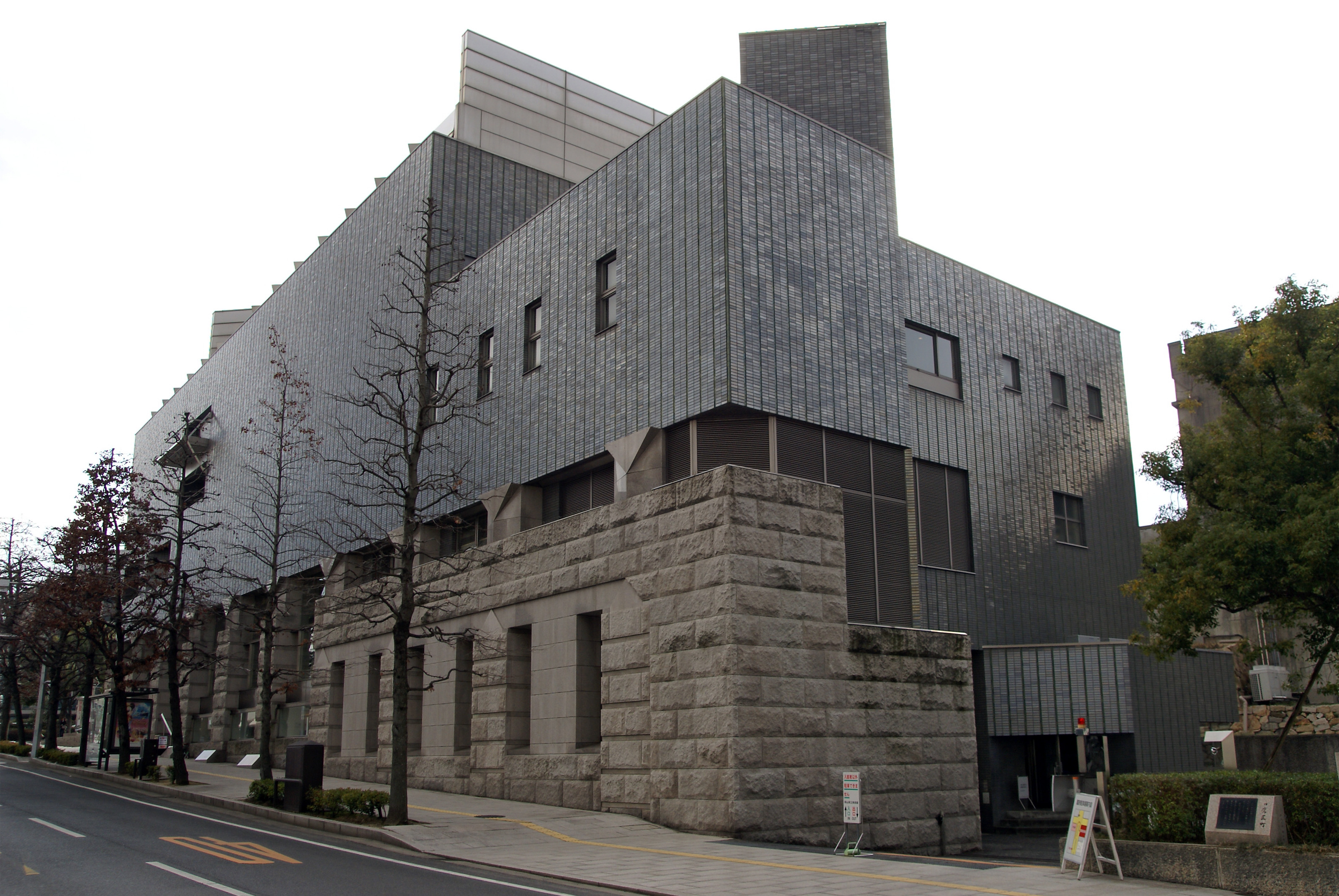 The Okayama Prefectural Museum of Art in Okayama, Okayama prefecture, Japan